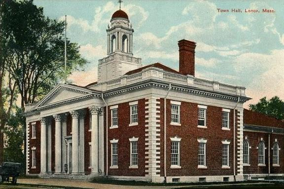 Town Hall, Lenox, MA; from a 1908 postcard. It was built in 1901.